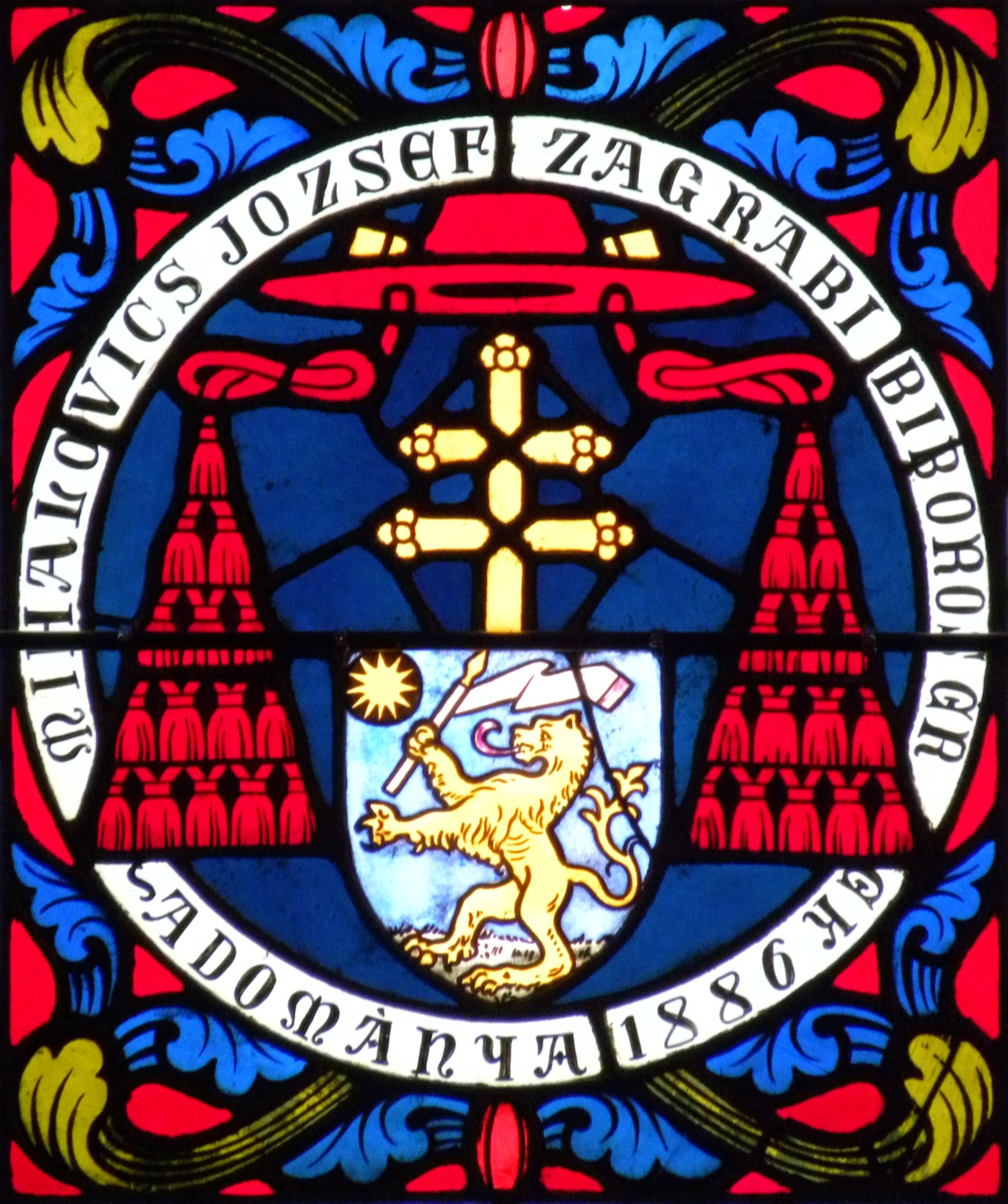 Coat of arms of Josip cardinal Mihalović, archbishop of Zagreb (1870 - 1891). Stained glass window with St. Stephen in the lower row in the presbytery of Matthias Church, Budapest. Inscription: "MIHALOVICS JOZSEF ZAGRABI BIBOROS ER(S)EK = ADOMÁNYA 1886".